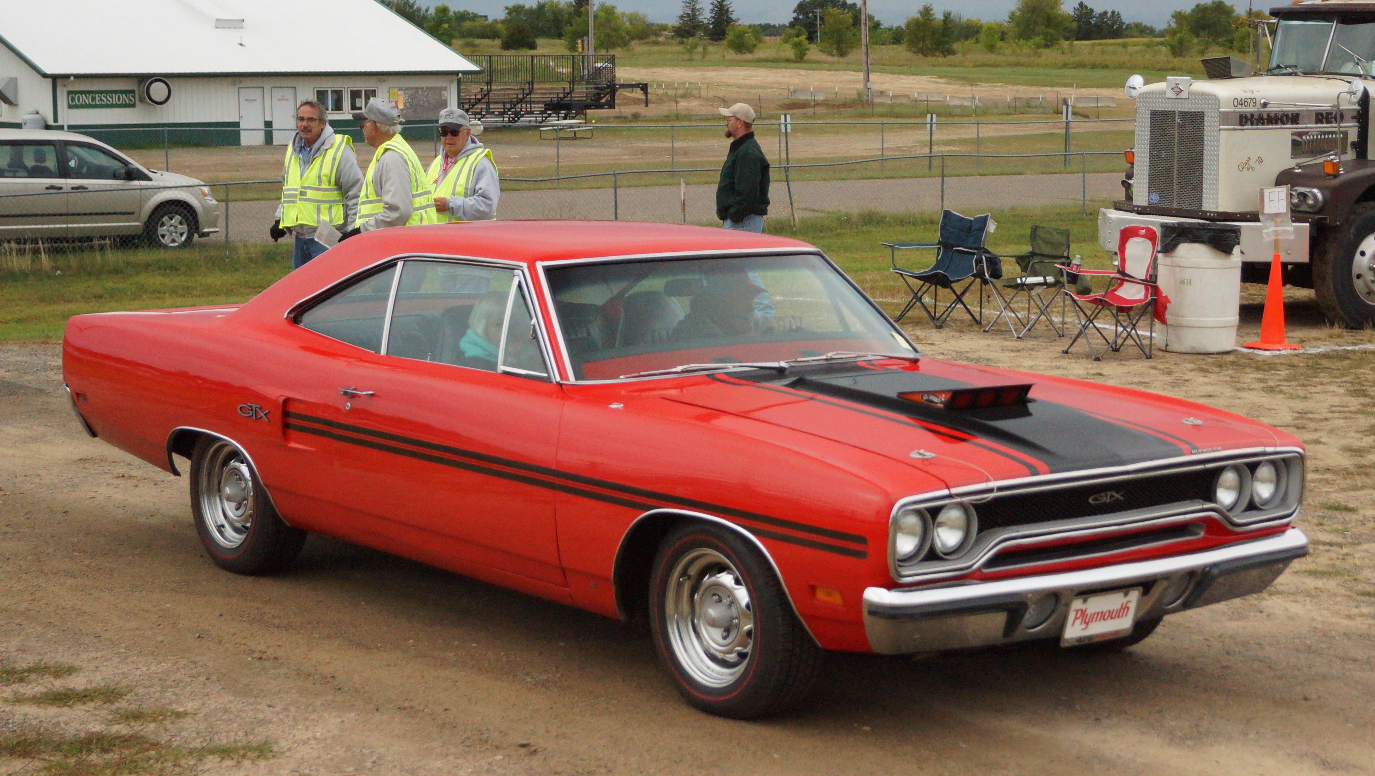 45th Annual Lone Eagle Auto Club Car Show / Swap Meet Morrison County Fairgrounds Little Falls, Minnesota September 2019 Click here for more car pictures by make. Click here for Car Event pictures by year. Or here for my Car Crazy Tumblr site. Or on Twitter @DVS1mn.